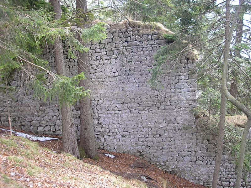 Hohenwaldeck castle (Schliersee-Fischhausen, Landkreis Miesbach, Upper Bavaria, Germany). The southern wall from inside